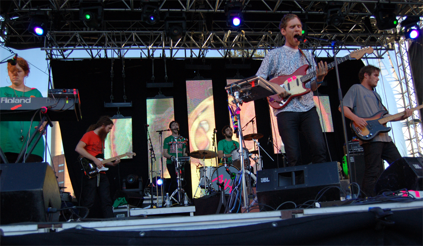 Architecture in Helsinki performing in Flow Festival in Helsinki, Finland